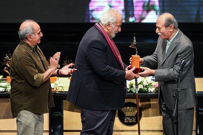 The closing ceremony of Shahrzad series in Tehran’s Milad Tower the series’ cast as well as the country’s artistic and political figures in attendance.